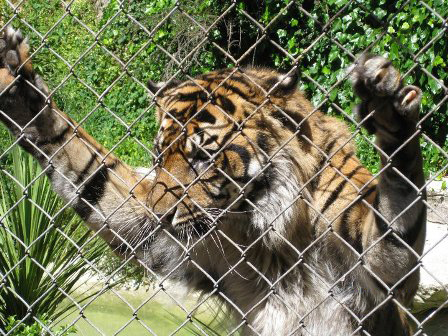 Template:ImageLicenseFreeUse Wellington Zoo's male tiger, Rokan, at the daily Tiger Talk.